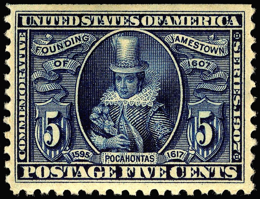 Image of Founding of Jamestown stamp, 5-cents, Issue of 1907